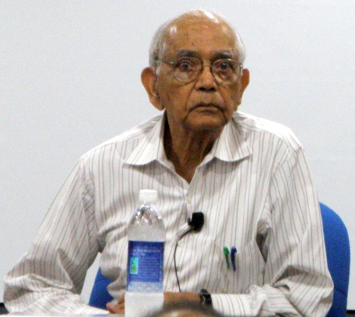 Calyampudi Radhakrishna Rao giving a talk at Indian Statistical Institute.